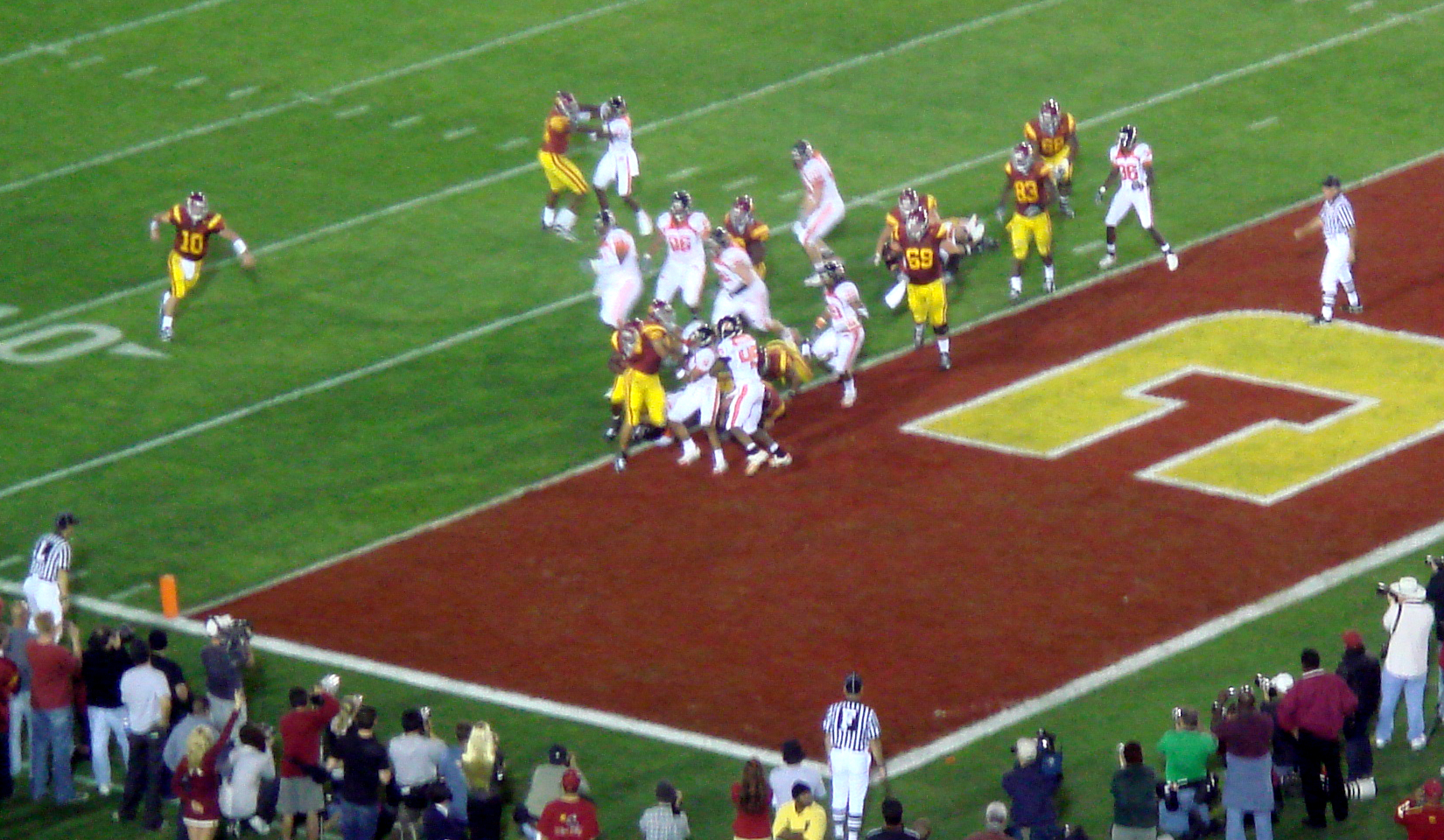 Chauncey Washington scores a touchdown (bottom of play, coming around the blocker with the ball in his right hand). The Oregon State Beavers visit the USC Trojans at the L.A. Coliseum on November 3, 2007; USC would win, 24-3.